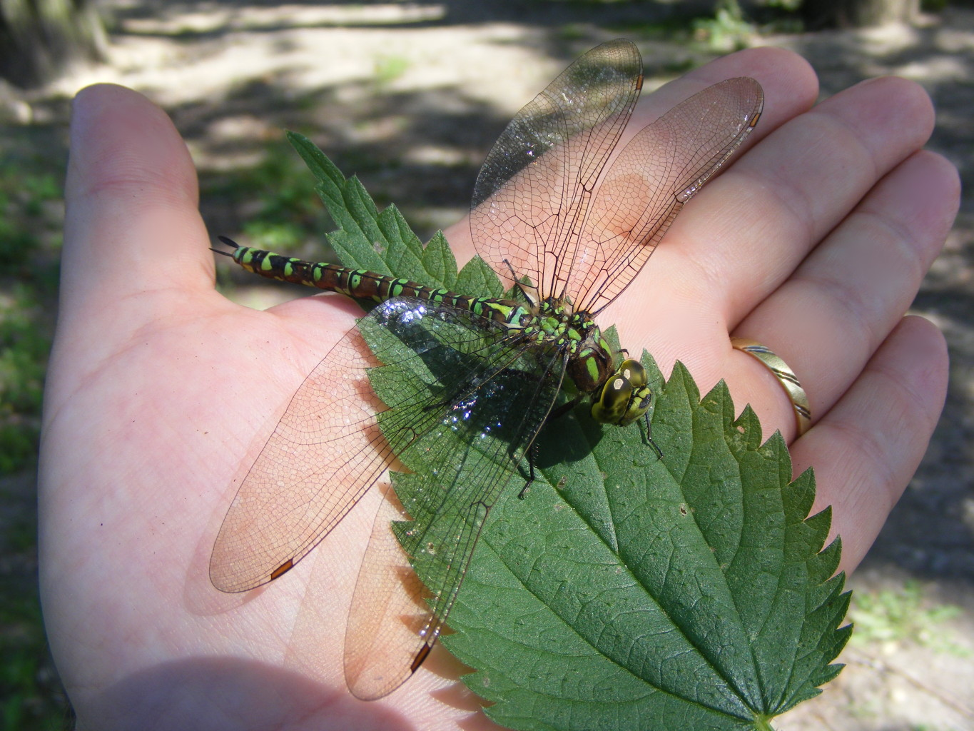 Probably Southern Hawker Aeshna cyanea female on my hand and leaf of nettle, injured possible by some bird or another bug. Right front leg is cut off. Shot taken in Milovice, Czech Republic, Europe